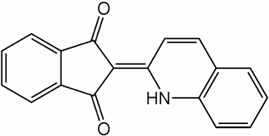 Description: Chemical structure of Quinoline Yellow SS Author, date of creation: selfmade by Shaddack, 1 December 2005 Source: self-made Copyright: Public Domain (PD) Comments: b/w hires PNG; ChemDraw